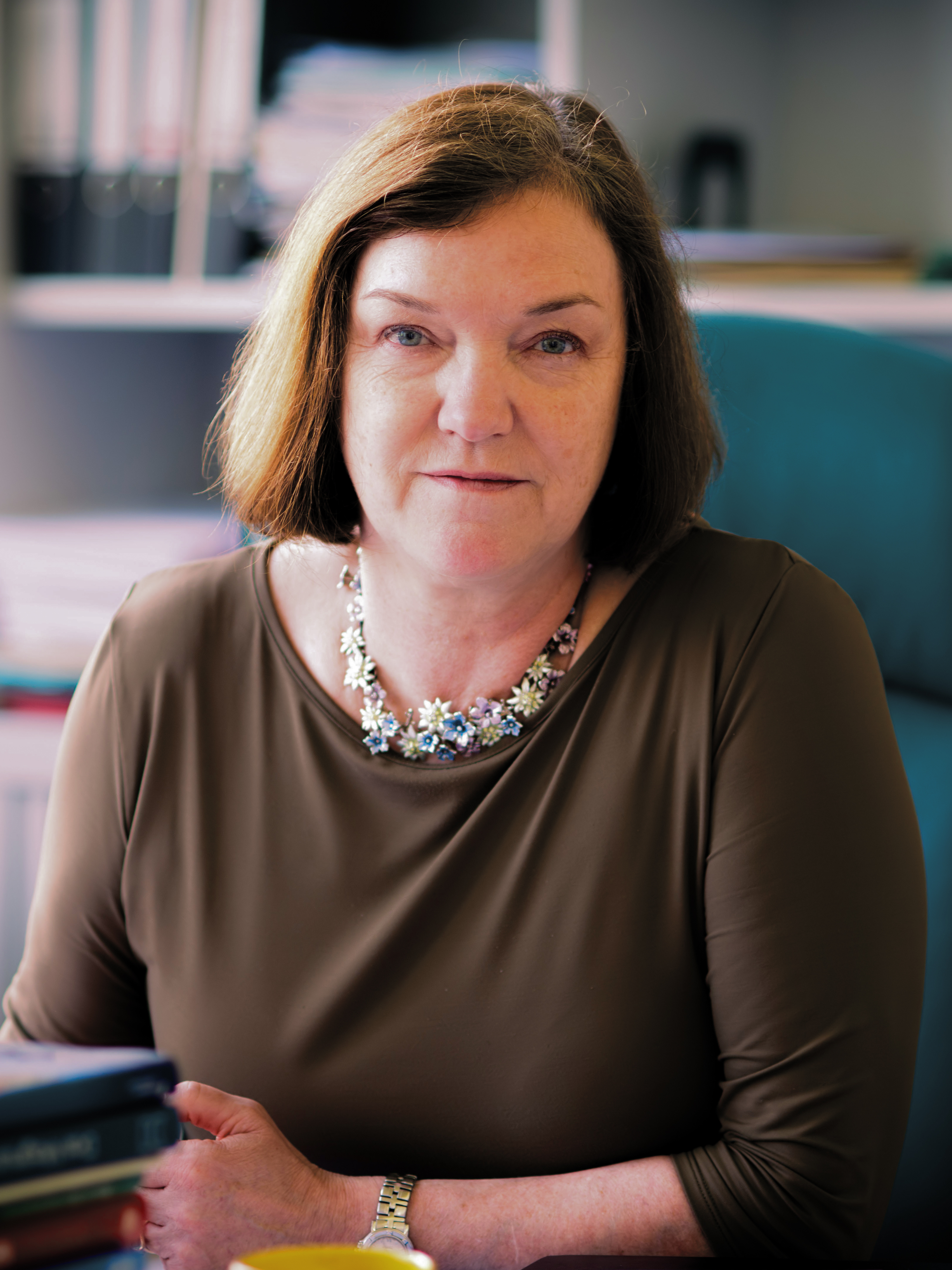 Prof. Johanna Stachel in her office at Heidelberg University 7 June 2016